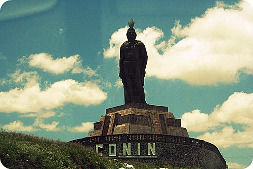 Statue of the Otomi king, Conín de Xilotepeque (also known as Fernando de Tapia) — founder of the city of Santiago de Querétaro, in Querétaro state, México.